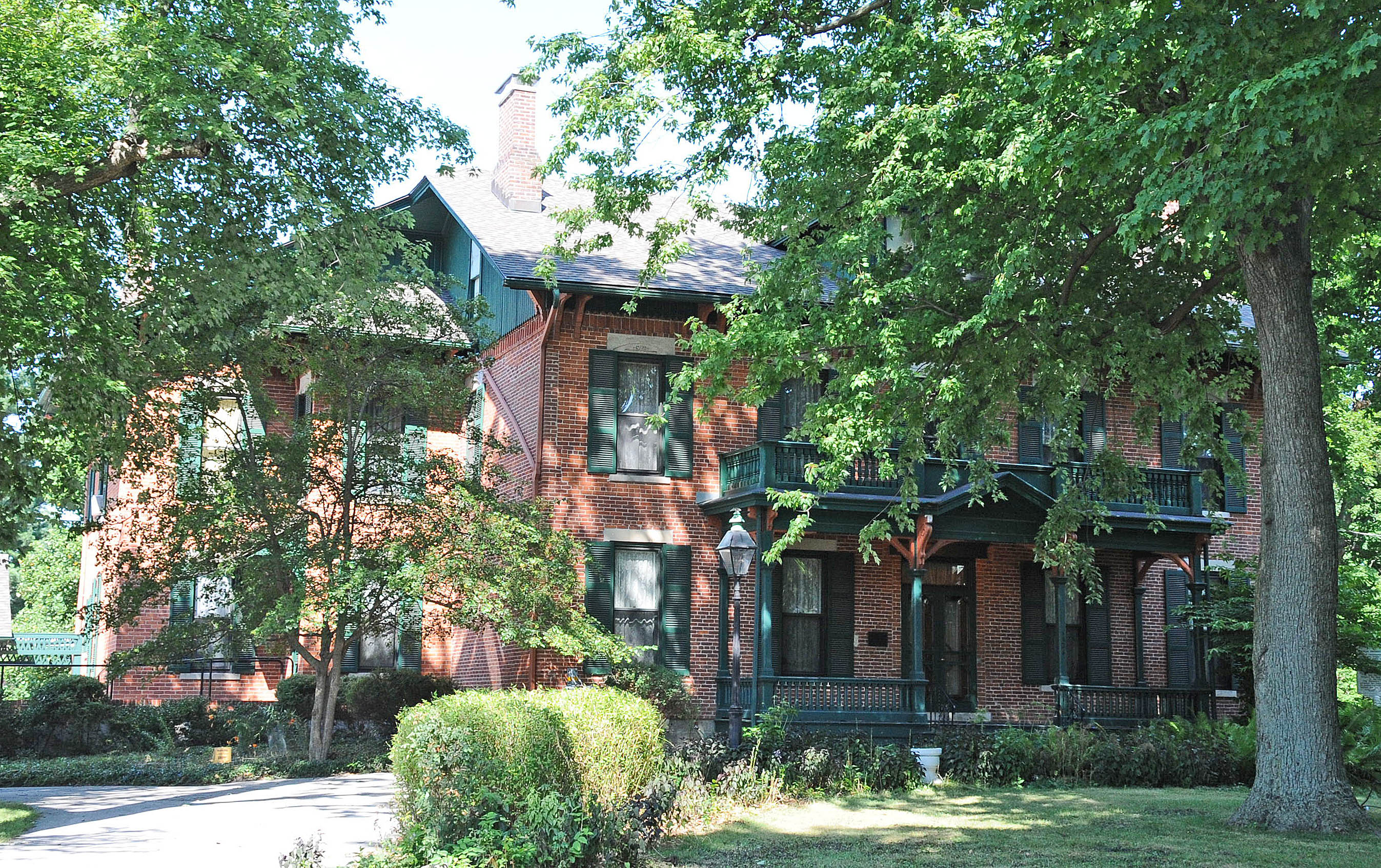 BUILT 1844-1845. SWINNMEY WAS A PIONEER SETTLER IN ALLEN COUNTY AND PROMINENT FORT WAYNE BUSINESSMAN. THE HOUSE IS LOCATED IN A LARGE PARK CALLED SWINNEY PARK ON LAND DONATED BY THE FAMILY.